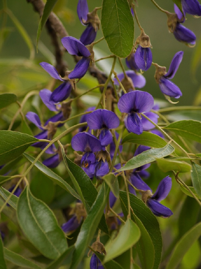 Bolusanthus speciosus Rhodesian-wisteria-tree Native to south Africa